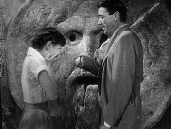 Cropped screenshot of Audrey Hepburn and Gregory Peck from the trailer for the film Roman Holiday.